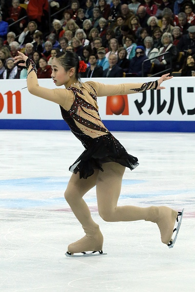 Amy LIN TPE in World Figure Skating Championships 2016 – 21st Place